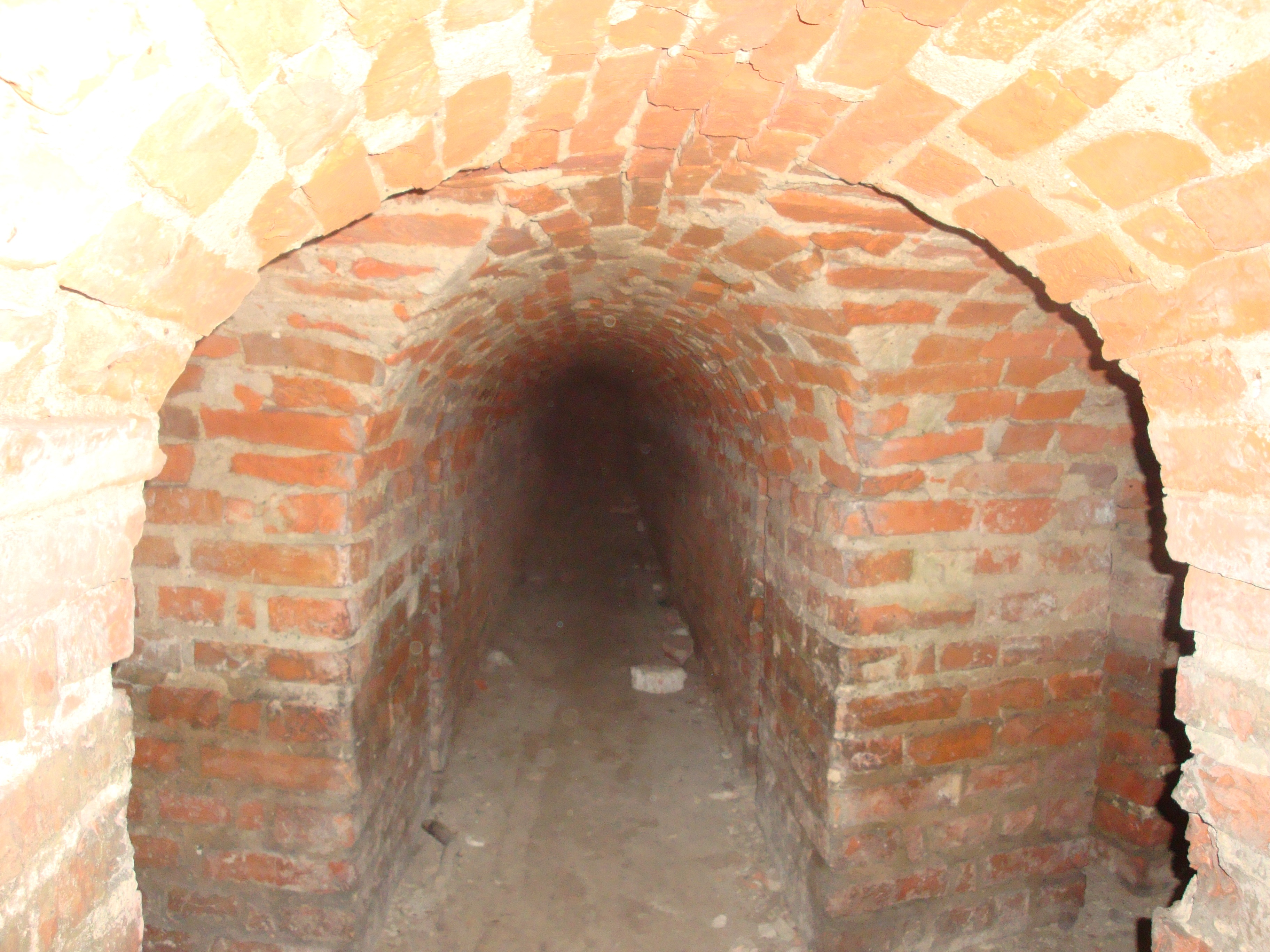 Fortress in Grudziądz, Poland. Mine chamber under bastion III